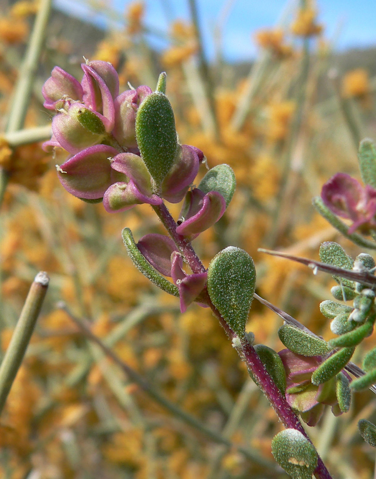 Grayia spinosa near the road in lower Kyle Canyon, Spring Mountains, southern Nevada (elev. about 1600 m)